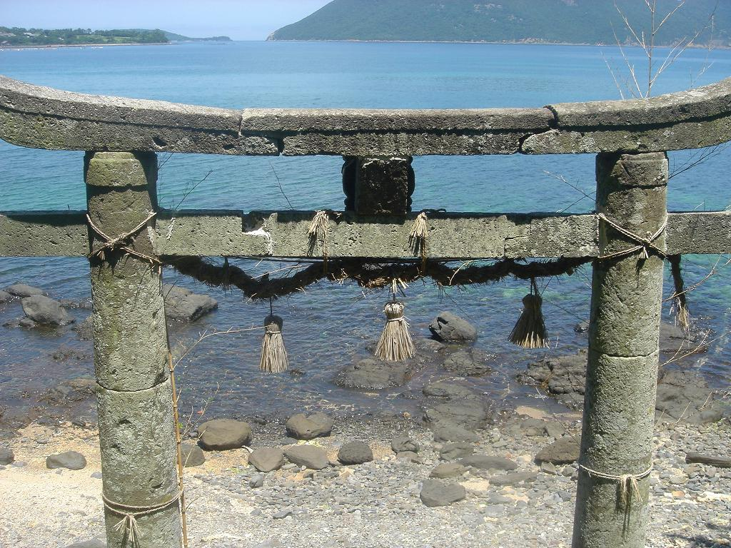 A picture taken from the stairs of Koujima Shrine looking out at the bay.